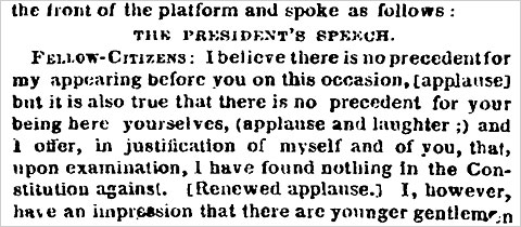 From the article Is That an Emoticon in 1862?, published by The New York Times in January 19, 2009, this image is an excerpt from an 1862 edition (therefore, in public domain) of the same journal showing a transcript of a speech given by president of the United States Abraham Lincoln in August 7, same year. (See full transcript.) The 2009 article discusses whether ";)" was used as an emoticon, or is it a mere typo, along other hypotheses...